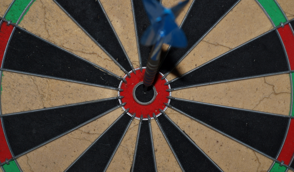 diddle for the middle or bull-of